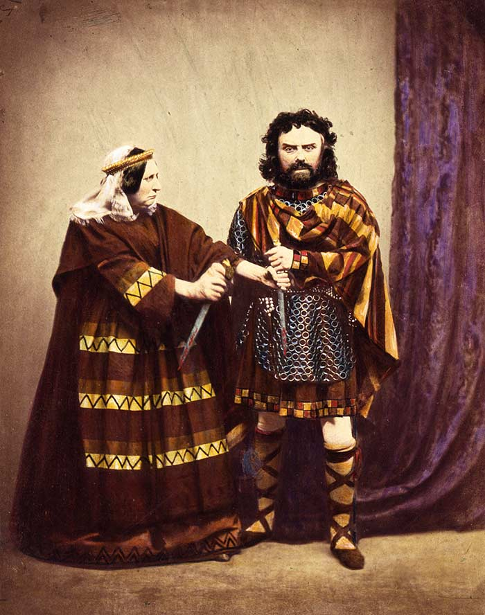 The English actor Charles Kean as William Shakespeare's Macbeth (1858).